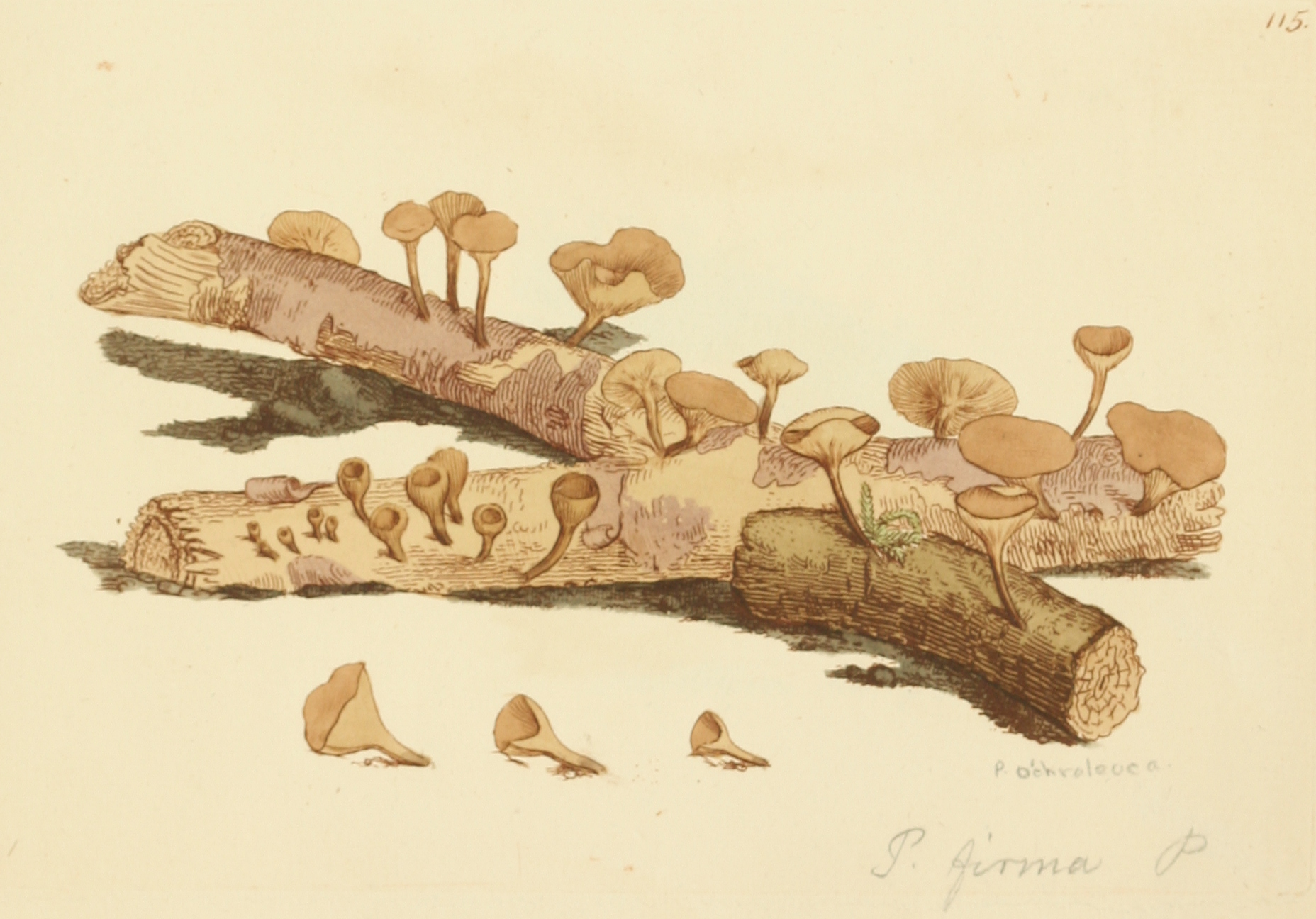 This is a plate from James Sowerby's Coloured Figures of English Fungi or Mushrooms.